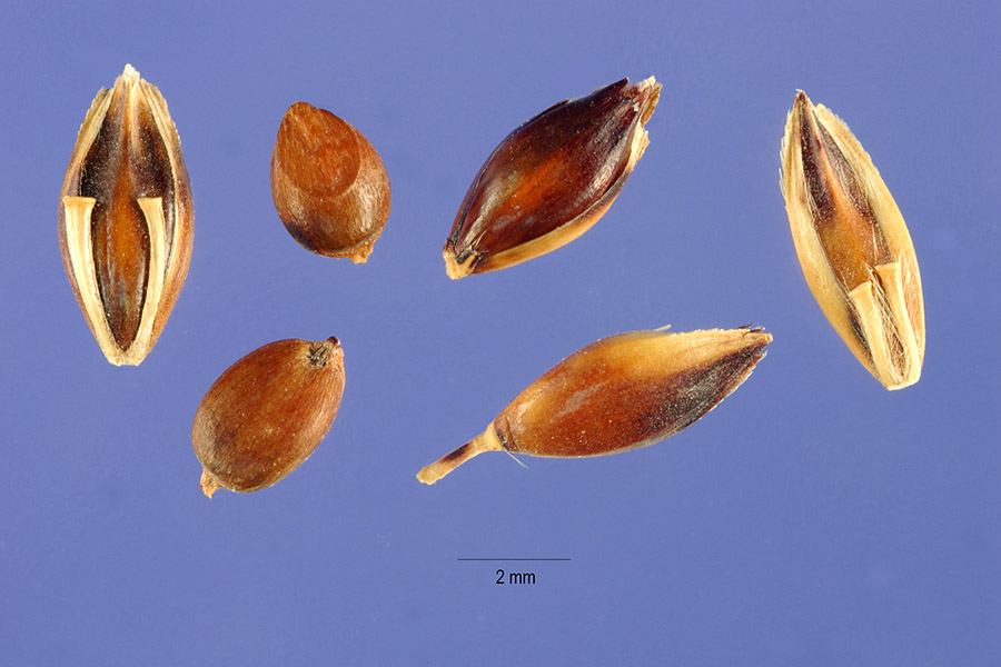 Seeds of Sorghum almum